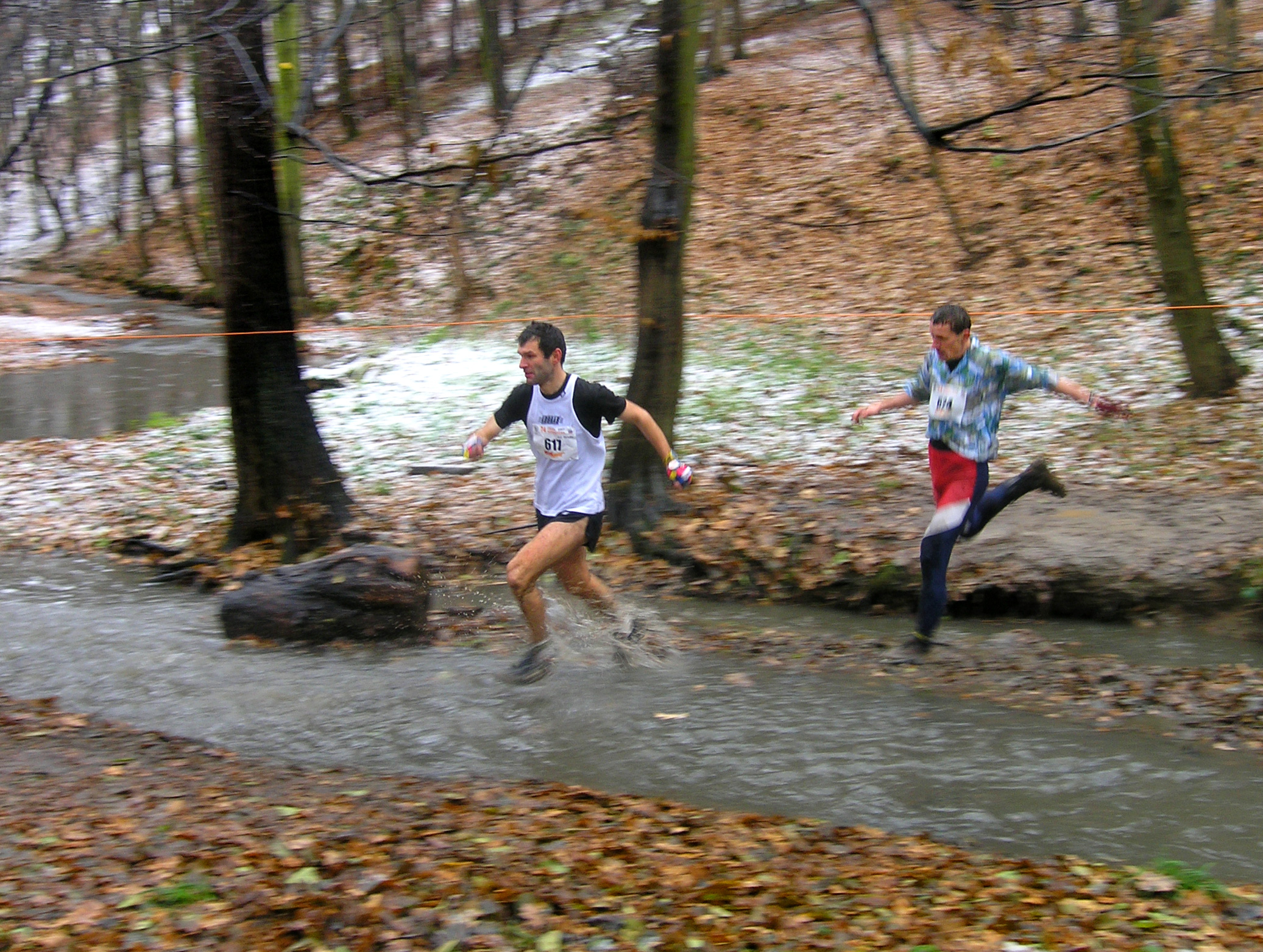 Velká kunratická - cross country running in Prague, Czech Republic: Petr Havelka